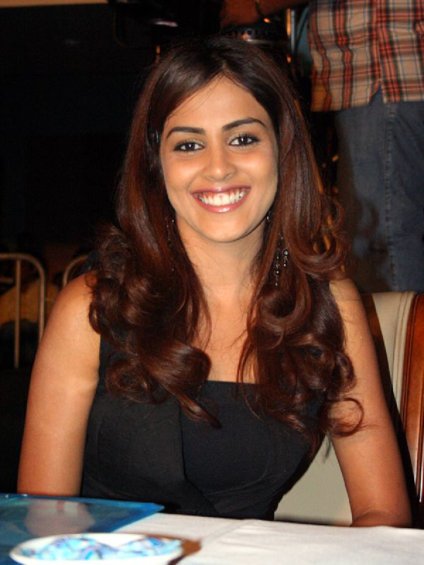 Indian film actress Genelia D'Souza posing at Calantha 2008 (Hyderabad). Calantha is an annual fashion show by Hamstech Institute of Fashion and Interior Design.